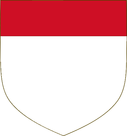 Arms of William Worsley, 4th Baronet. He is the father of Katharine, Duchess of Kent